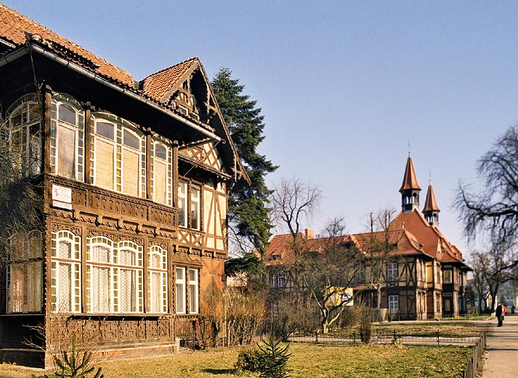 Half-timbered houses in Bydgoskie district, Toruń